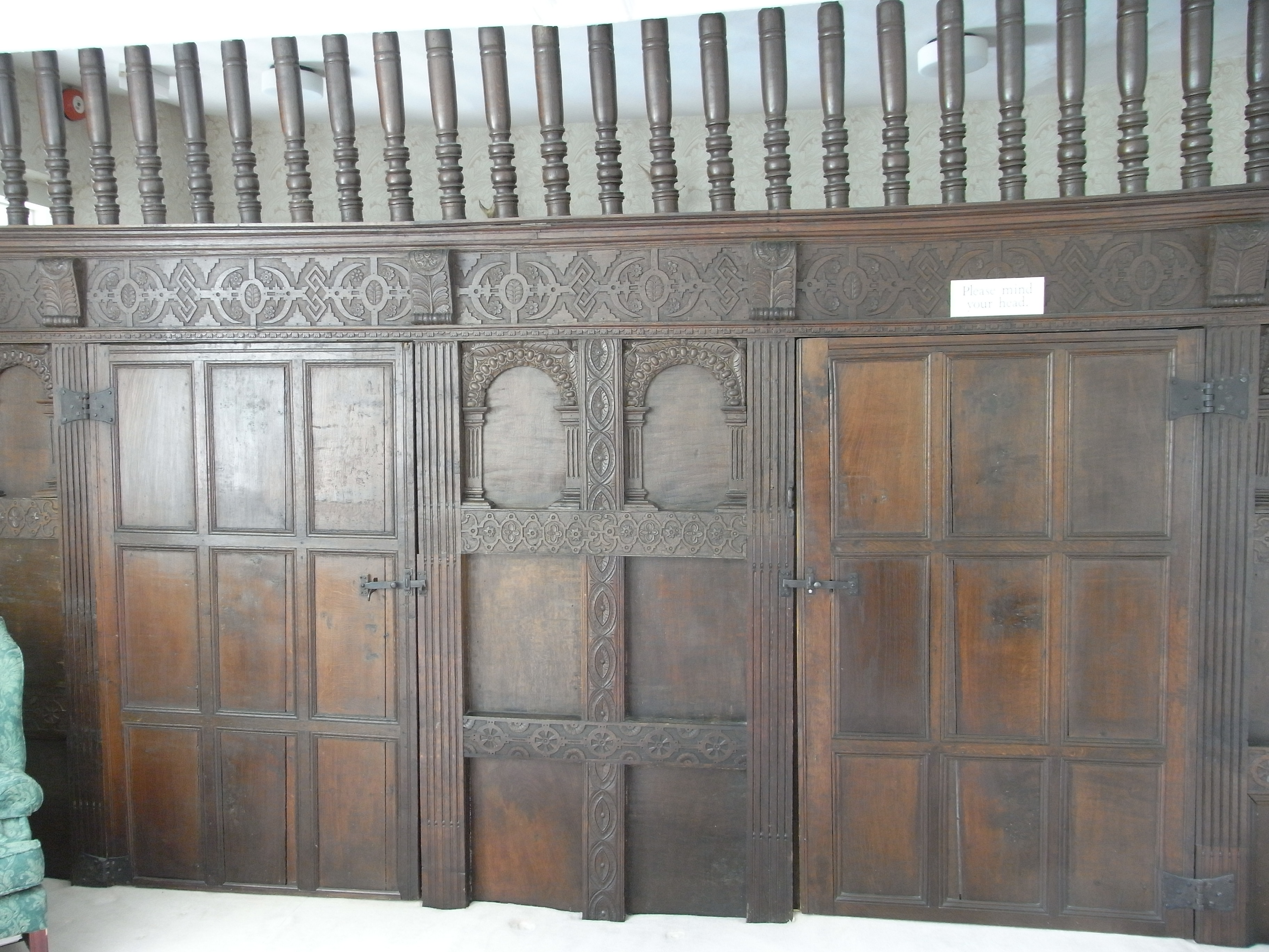 Whitechapel Manor, Bishops Bympton, Devon, hall screen, oak, early 17th.c. (Pevsner, Devon, 2004, p.183), with strapwork decoration. Viewed from within great hall. the main entrance door is behind the screen to the left